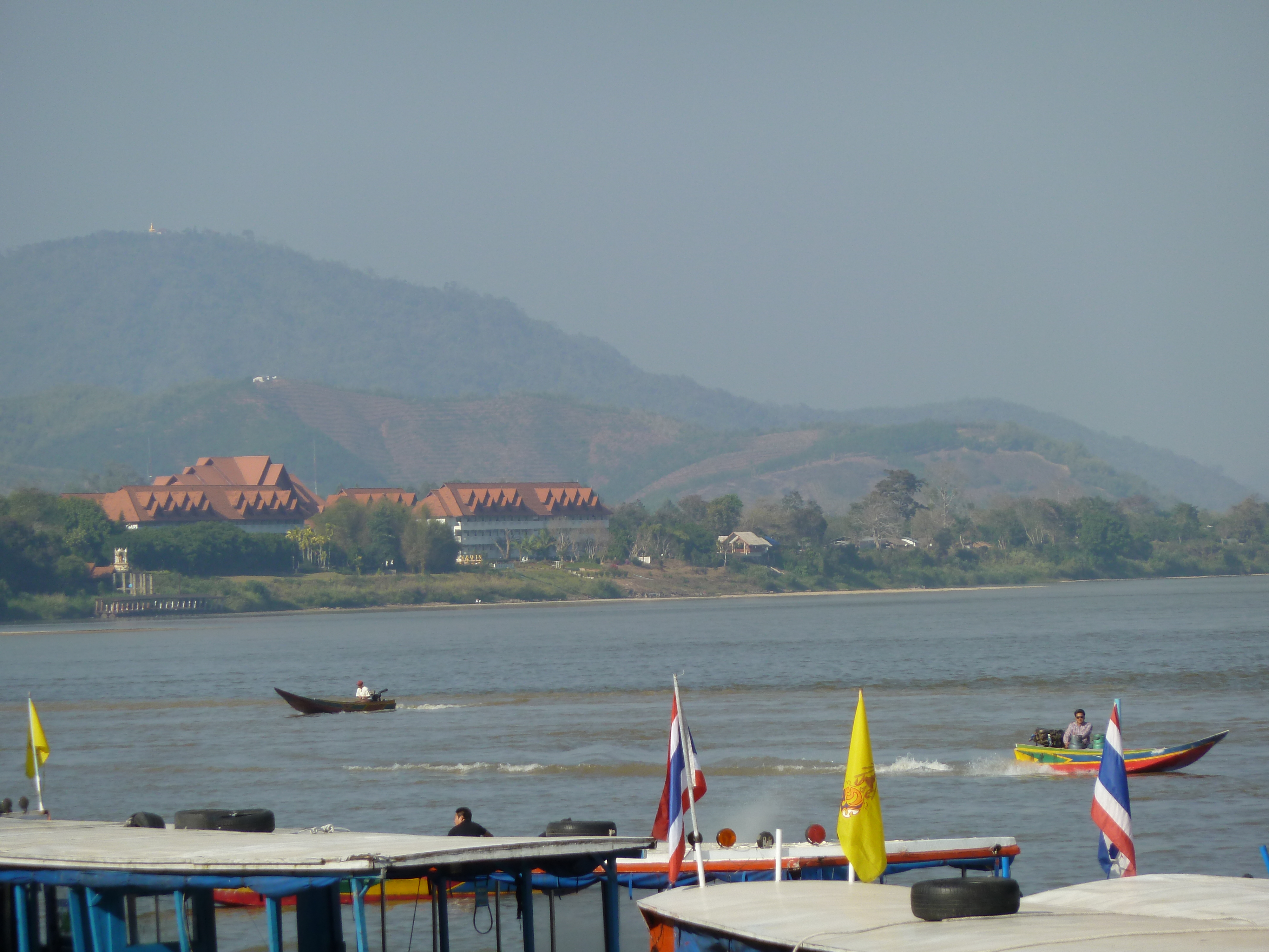 Mekong Golden Triangle, Mekong River at the meeting of the Laos, Myanmar and Thailand Borders